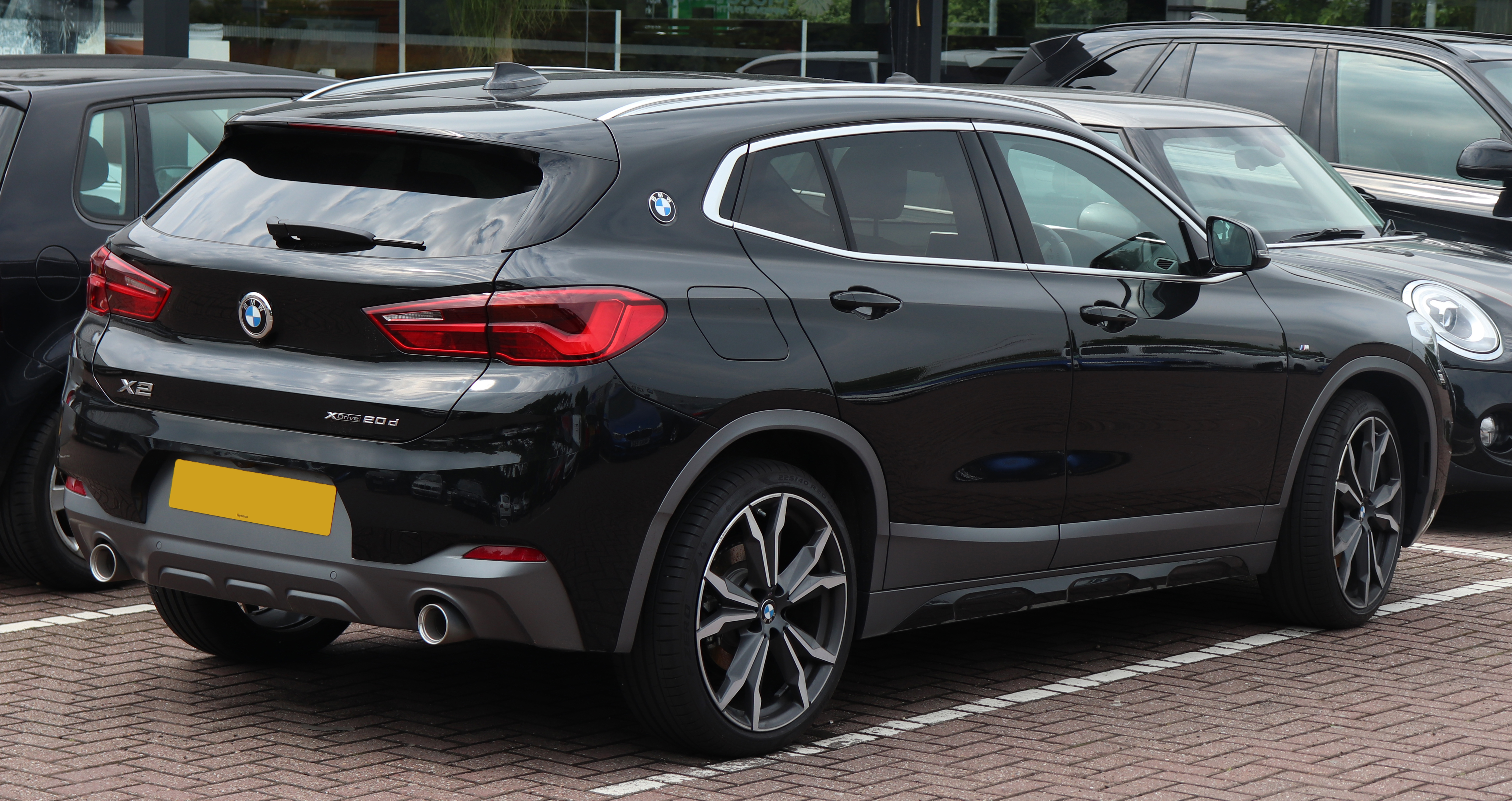 2018 BMW X2 xDrive 20d M Sport X Automatic 2.0 Rear Taken at Rybrook BMW Warwick, Leamington Spa